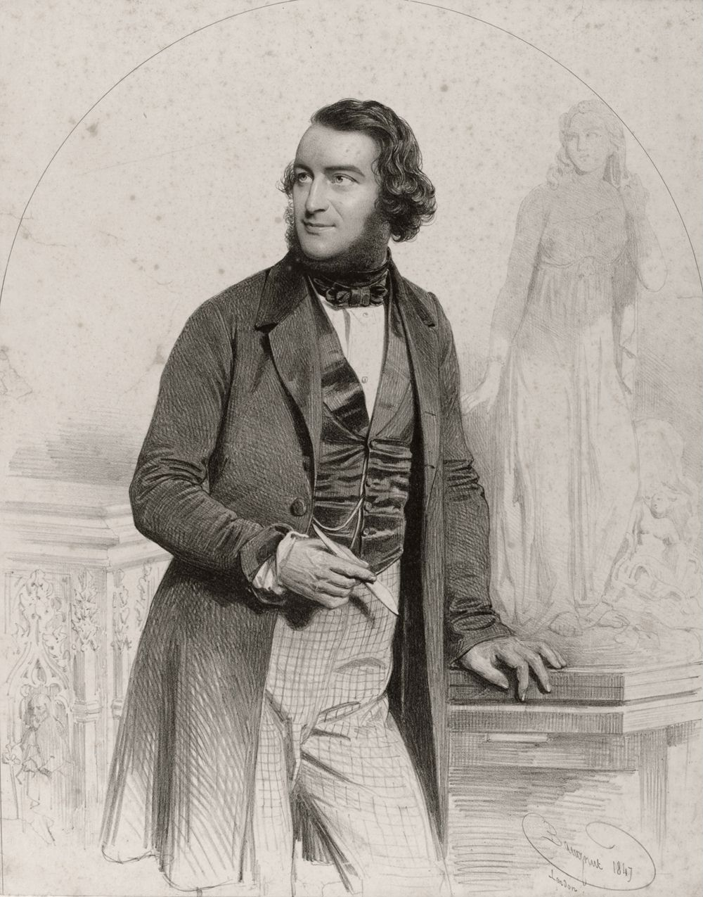 Engraving of the English sculptor John Thomas (1813-1862).